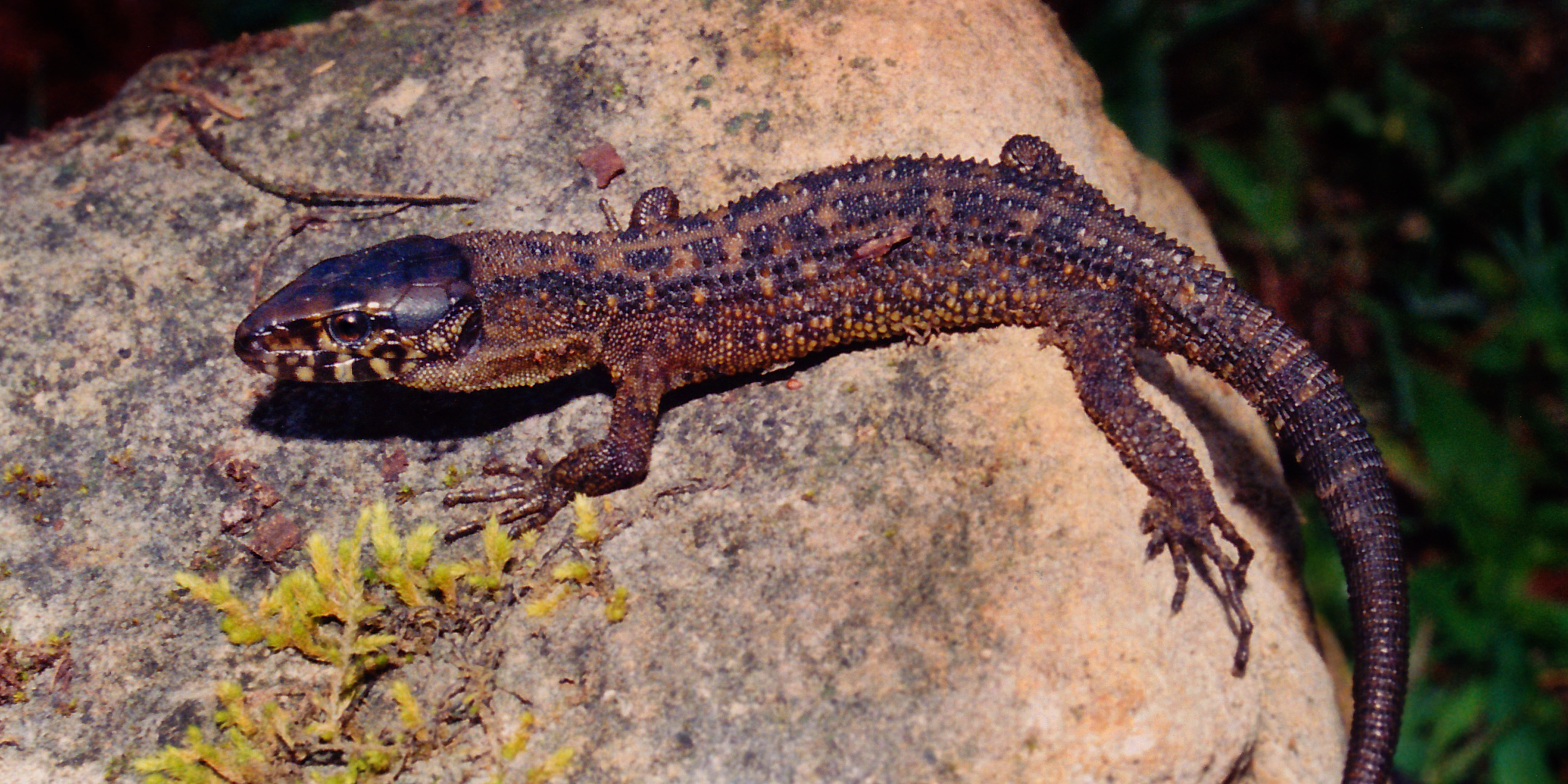 Madrean Tropical Night Lizard (Lepidophyma sylvaticum) El Cielo Biosphere Reserve, municipality of Gómez Farías, Tamaulipas, Mexico. Photographed on 24 May 2005 by William L. Farr. This image was originally photographed with film and later scanned from a print.